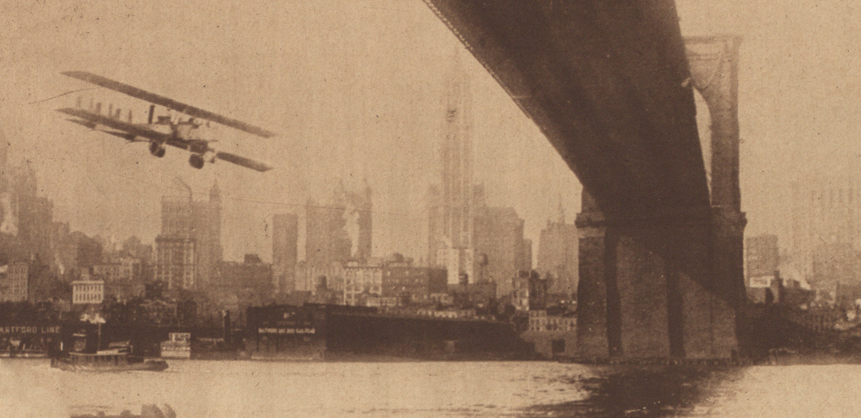 Newspaper photo (digitally altered slightly to fix corners) Original caption: To the best of our knowledge this is the first photo be published of an airplane flying underneath Brooklyn Bridge. This remarkable and hazardous feat was accomplished one day last week by one of the army's giant Caproni planes from Mineola. Treacherous air currents and the fact that the Caproni is not designed to land on water made this thrilling stunt daring in the extreme.